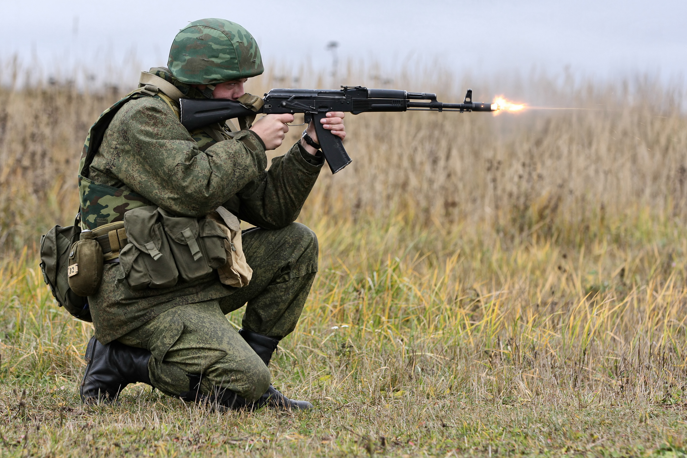 4th Guards Separate Kantemirovskaya Tank Brigade